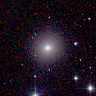 NGC 1549 by the Two Micron All Sky Survey.